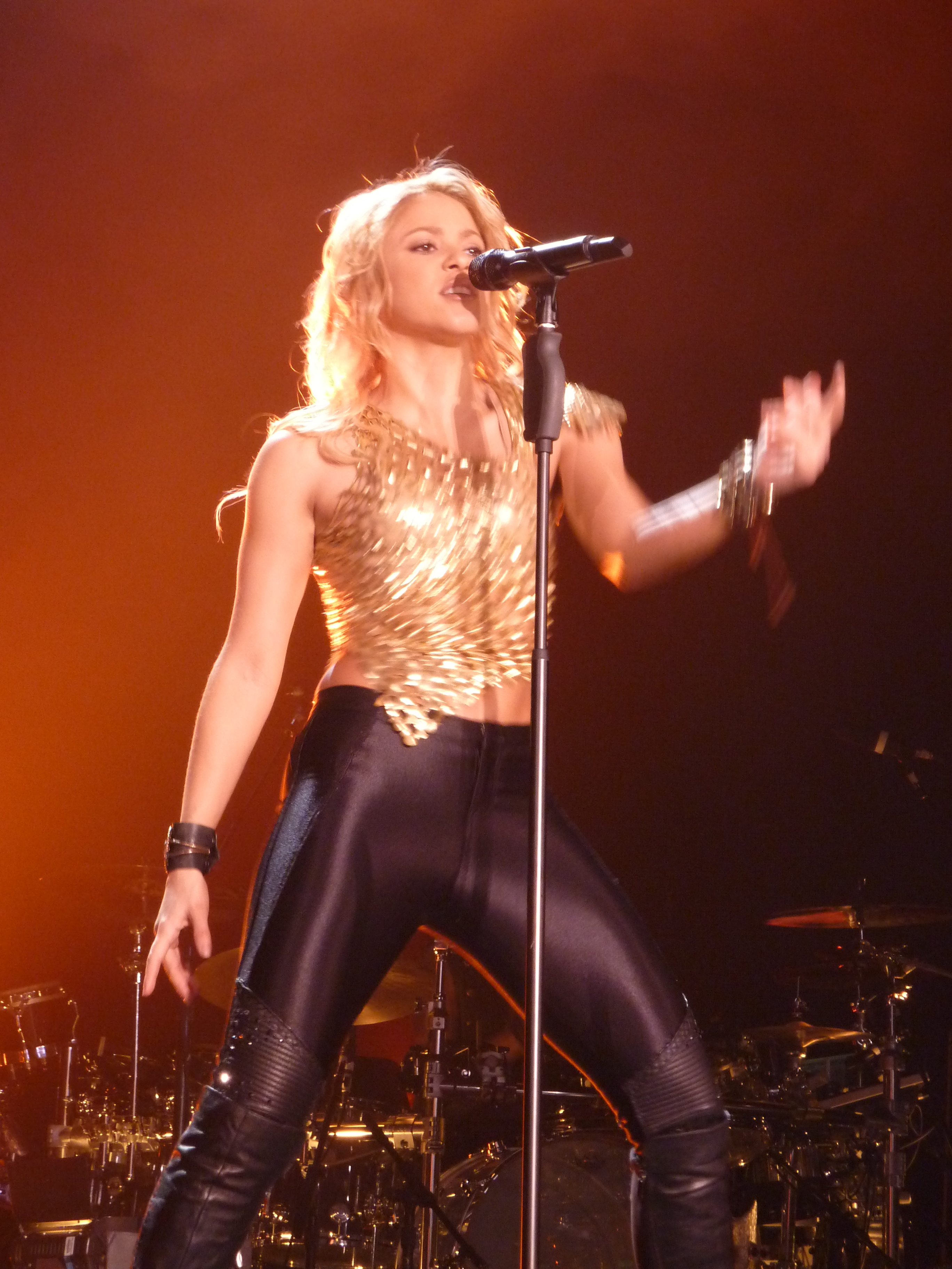 Shakira in concert in Palais Omnisports de Paris-Bercy, Paris in 2010.